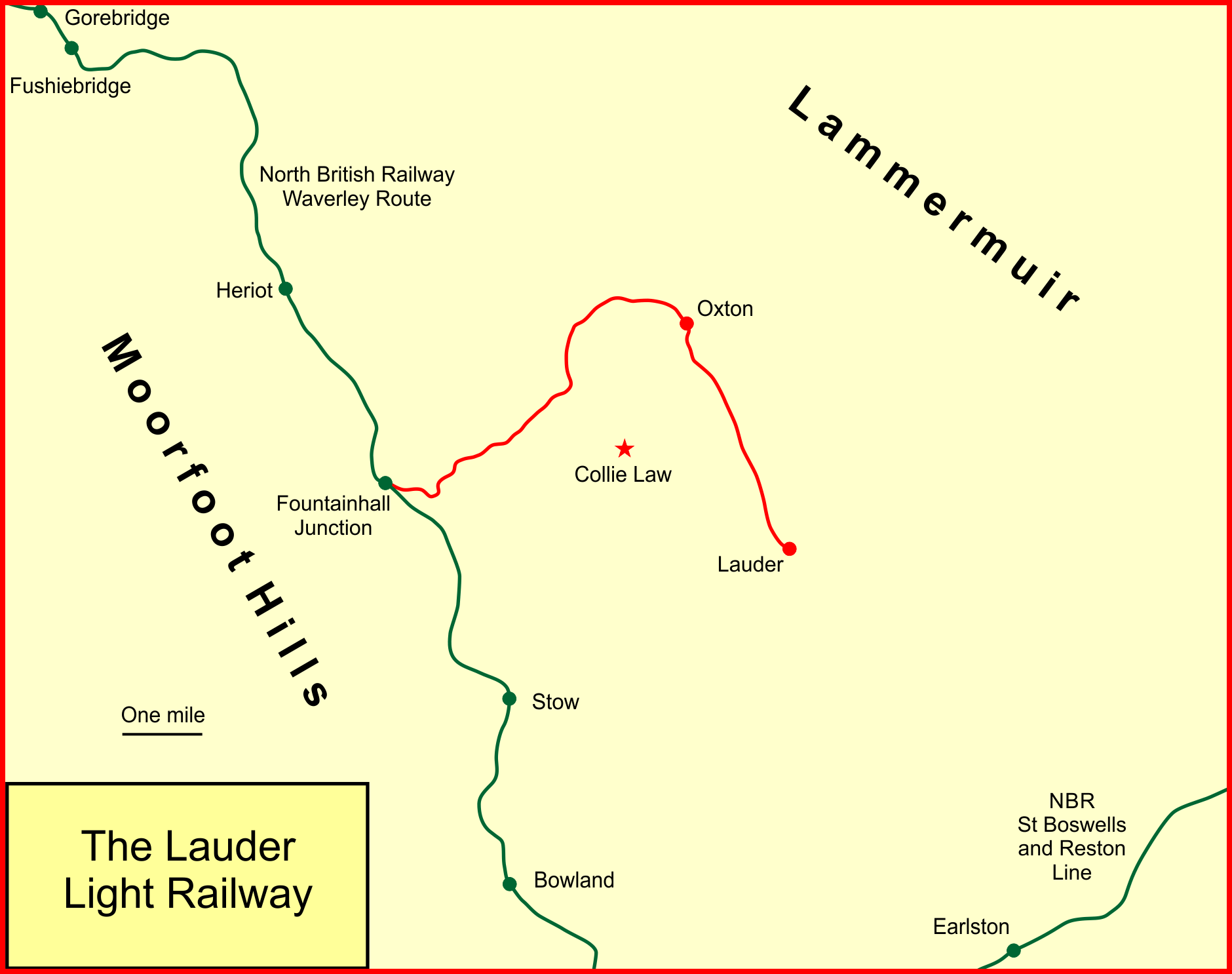 System map of the Lauder Light Railway, Berwickshire, Scotland, opened 1902